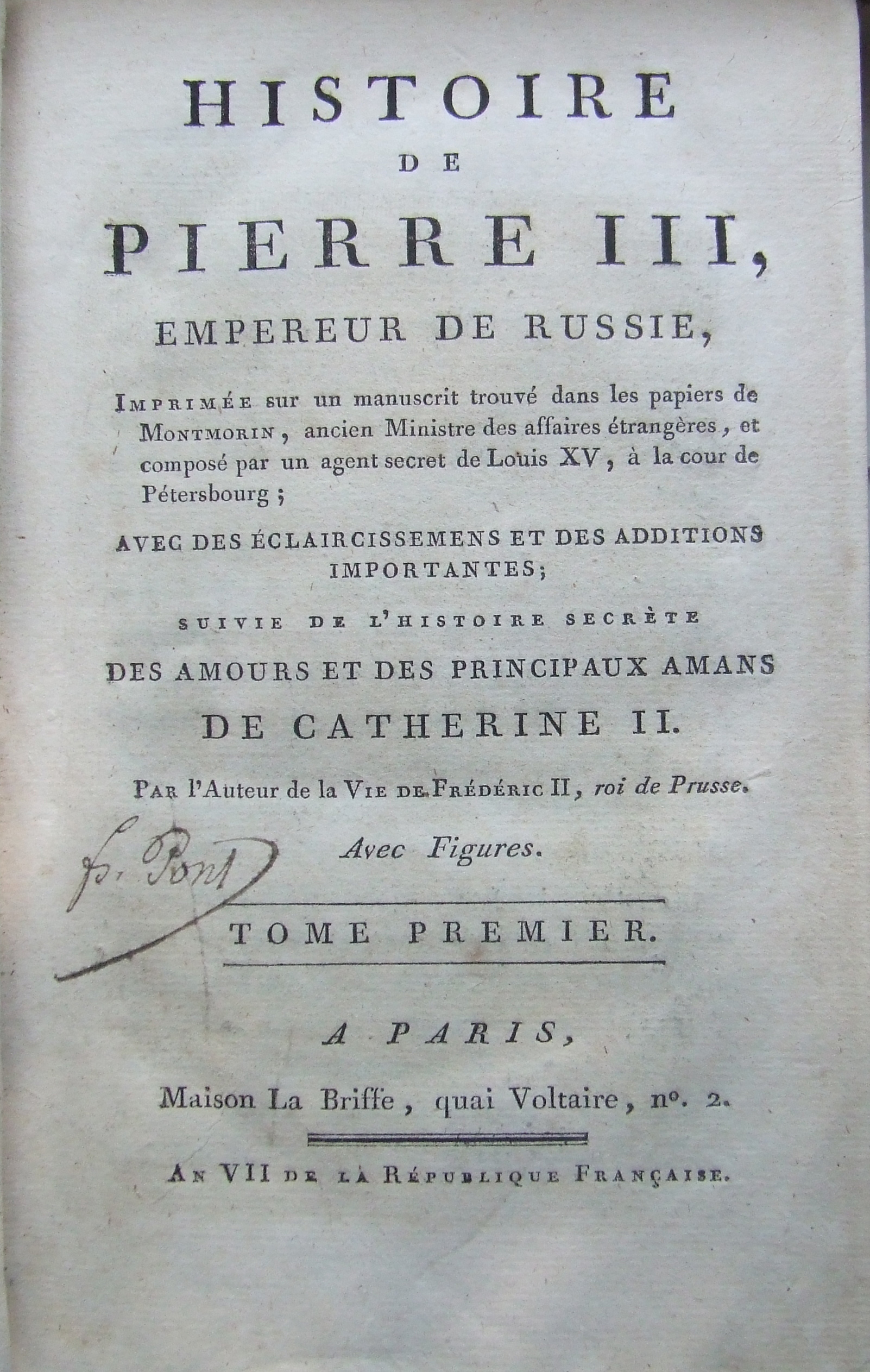 J.-Ch. Thibault de Laveaux. The title page of the History of Peter III. 1799